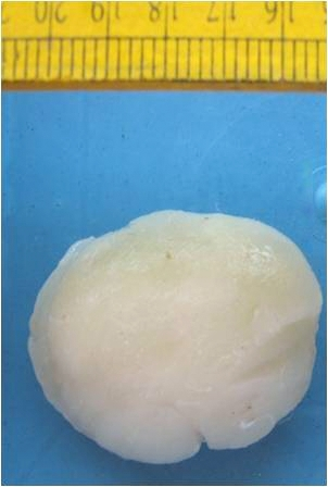 Neurofibroma: Nodular mass with whitish glistening cut surface.